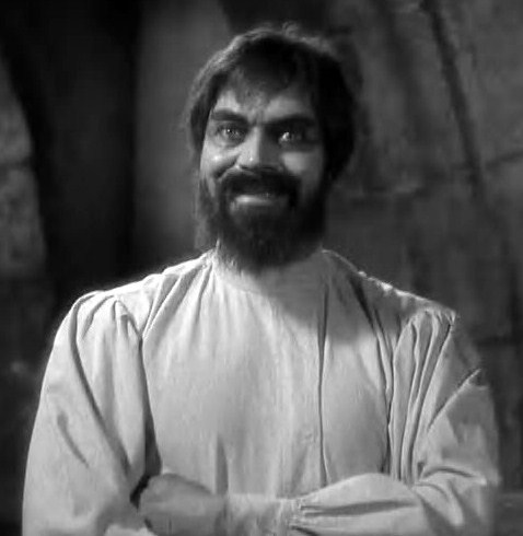 Noble Johnson in The Most Dangerous Game (1932) (cropped screenshot)